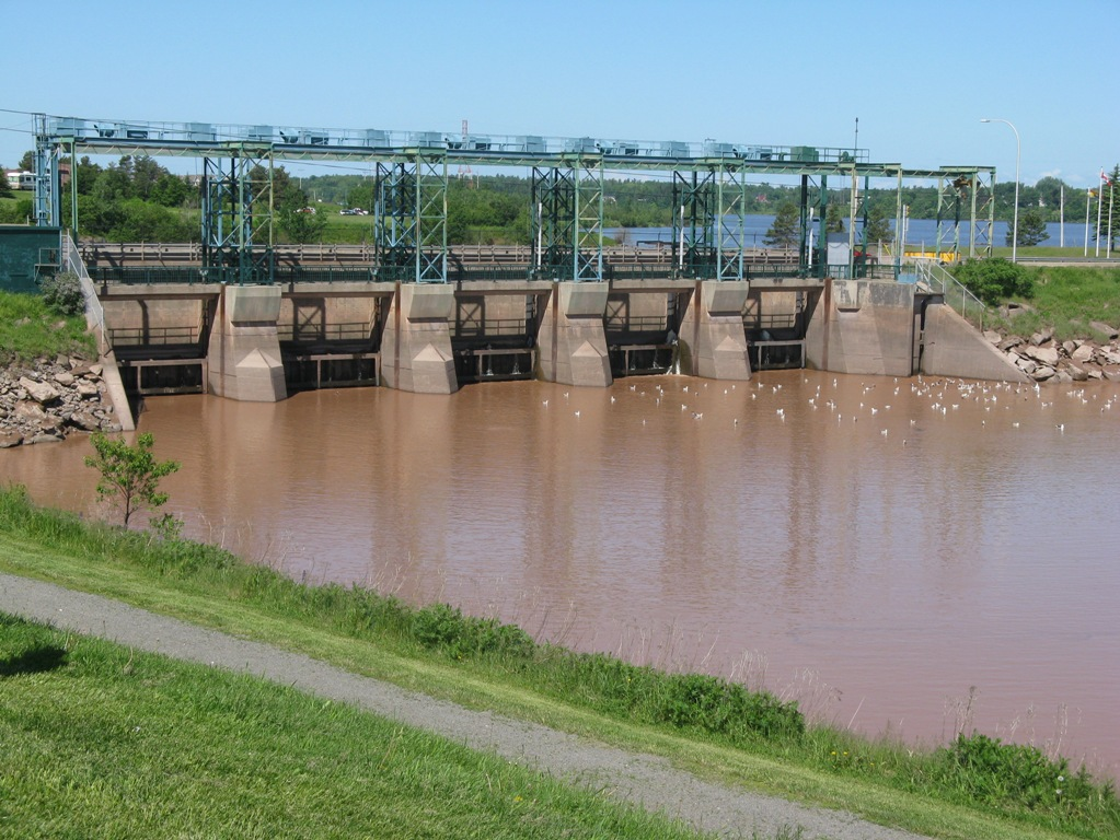 A view of the Petitcodiac River Causeway in Riverview, New Brunswick.